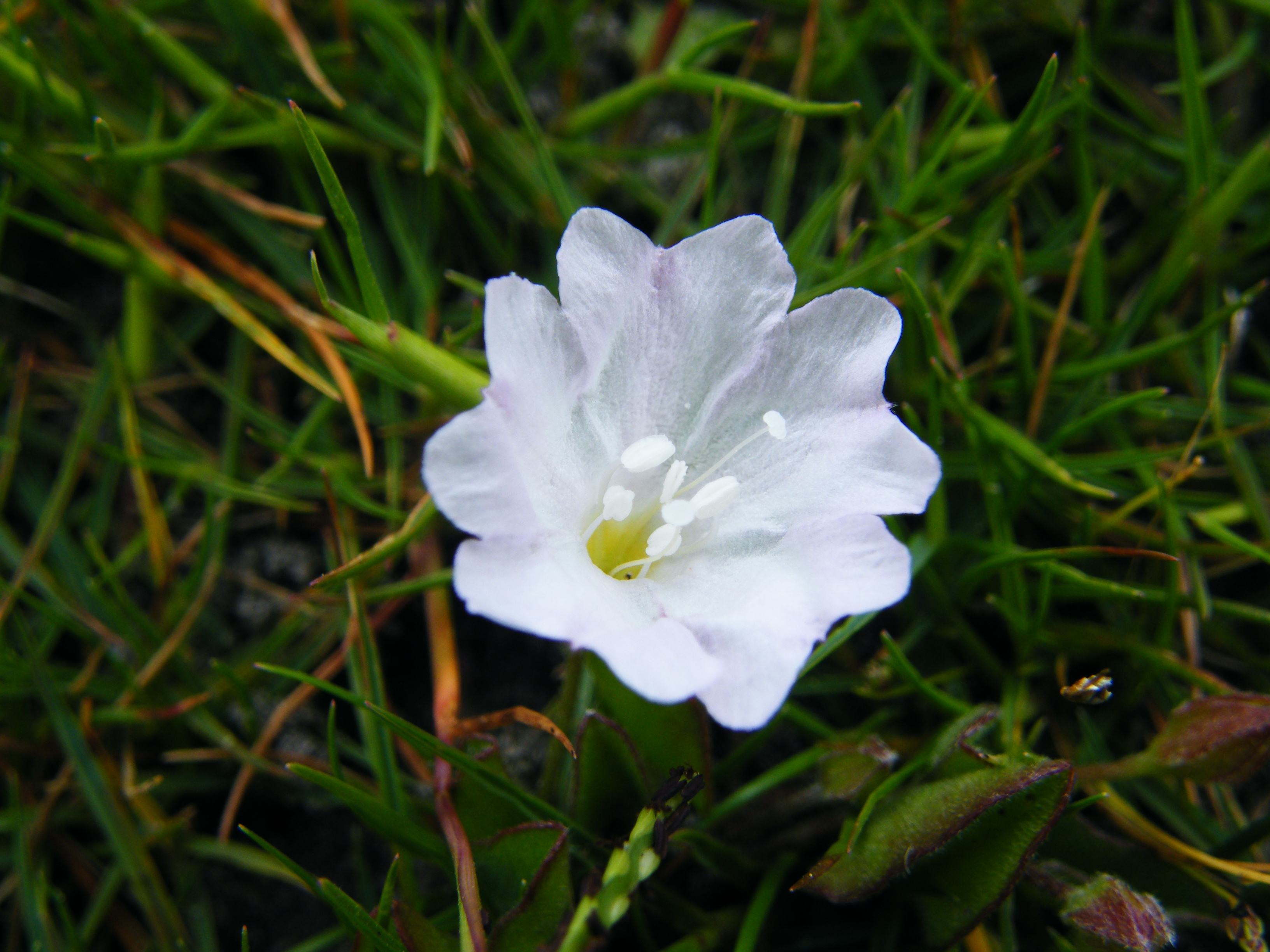 Falkia repens